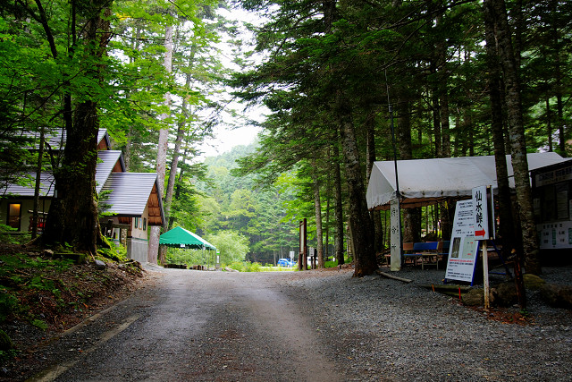 Kitazawa Pass on the Minami Alps Forest Road, on the Yamanashi-Nagano prefectutral border